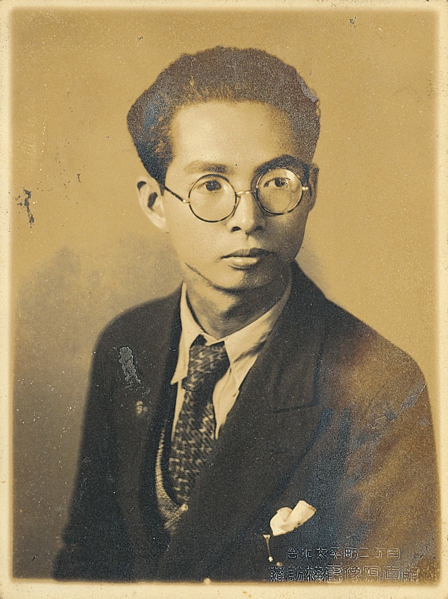 Portrait of Teng Yu-hsienBân-lâm-gú: Tīng Ú-hiân siàu-siōng. /鄧雨賢肖像。